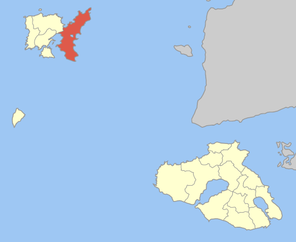 Locator map of Moudros Thermis municipality (Δήμος Μούδρου) in Lesbos prefecture (Νομός Λέσβου) in Greece.